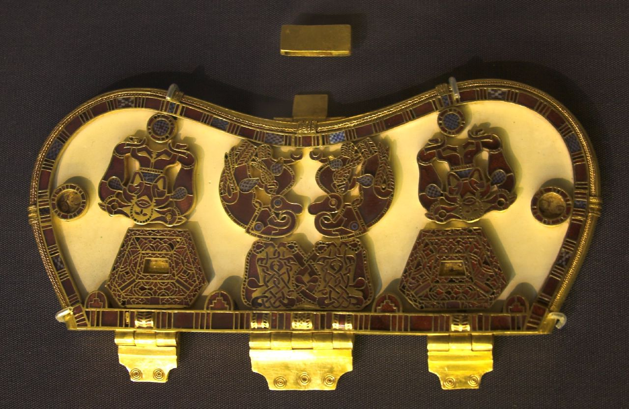 Purse-lid from the Sutton Hoo ship-burial 1, England. British Museum.